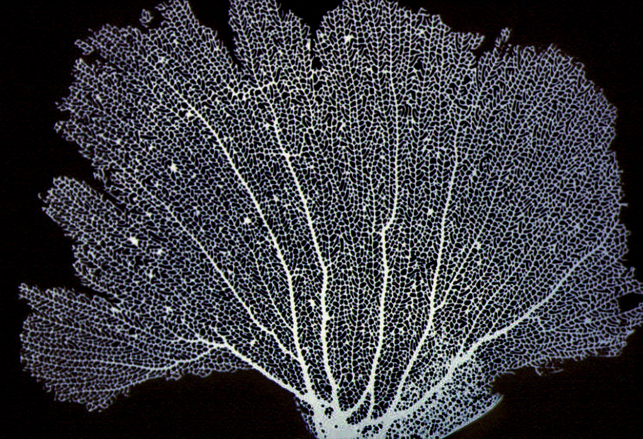 Gorgonacea shadow photo by transillumination on an X-Ray film